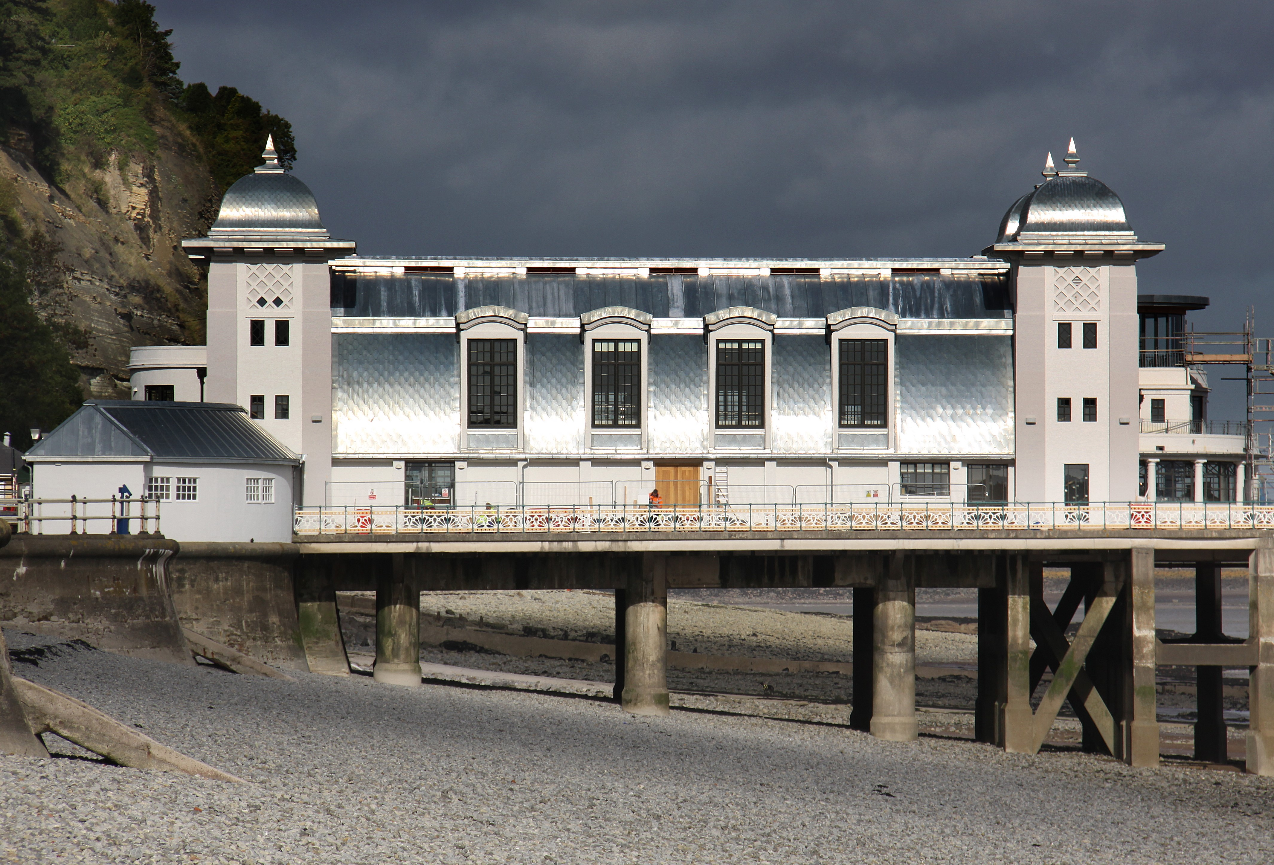 Penarth_Pier, Penarth, Wales